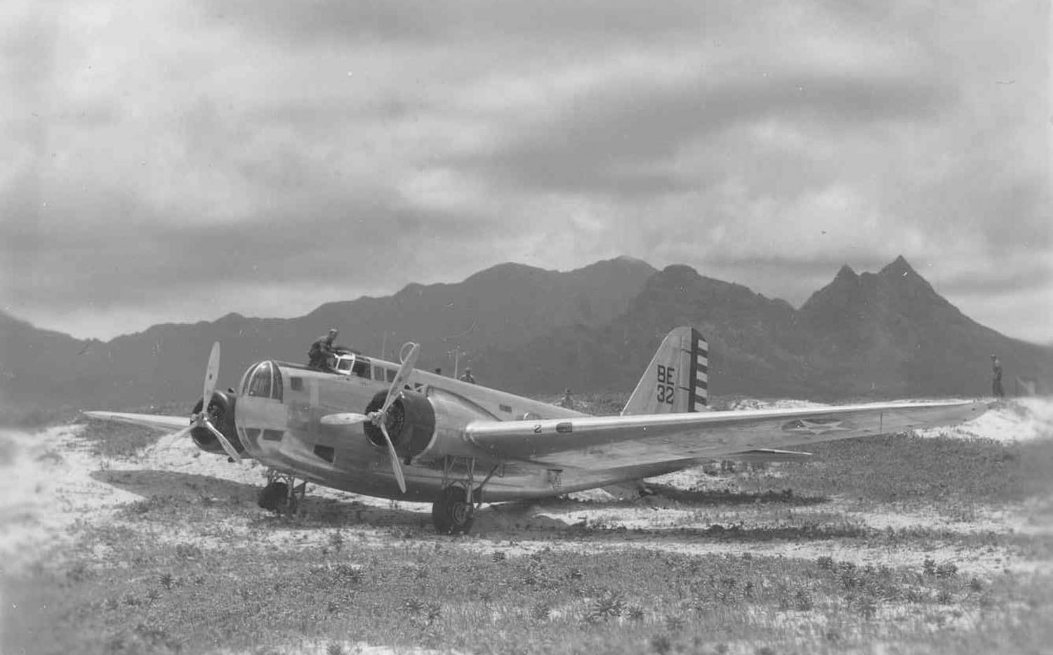 Douglas B-18 of the 3rd Bomb Group (BC 20) after over-running the runway